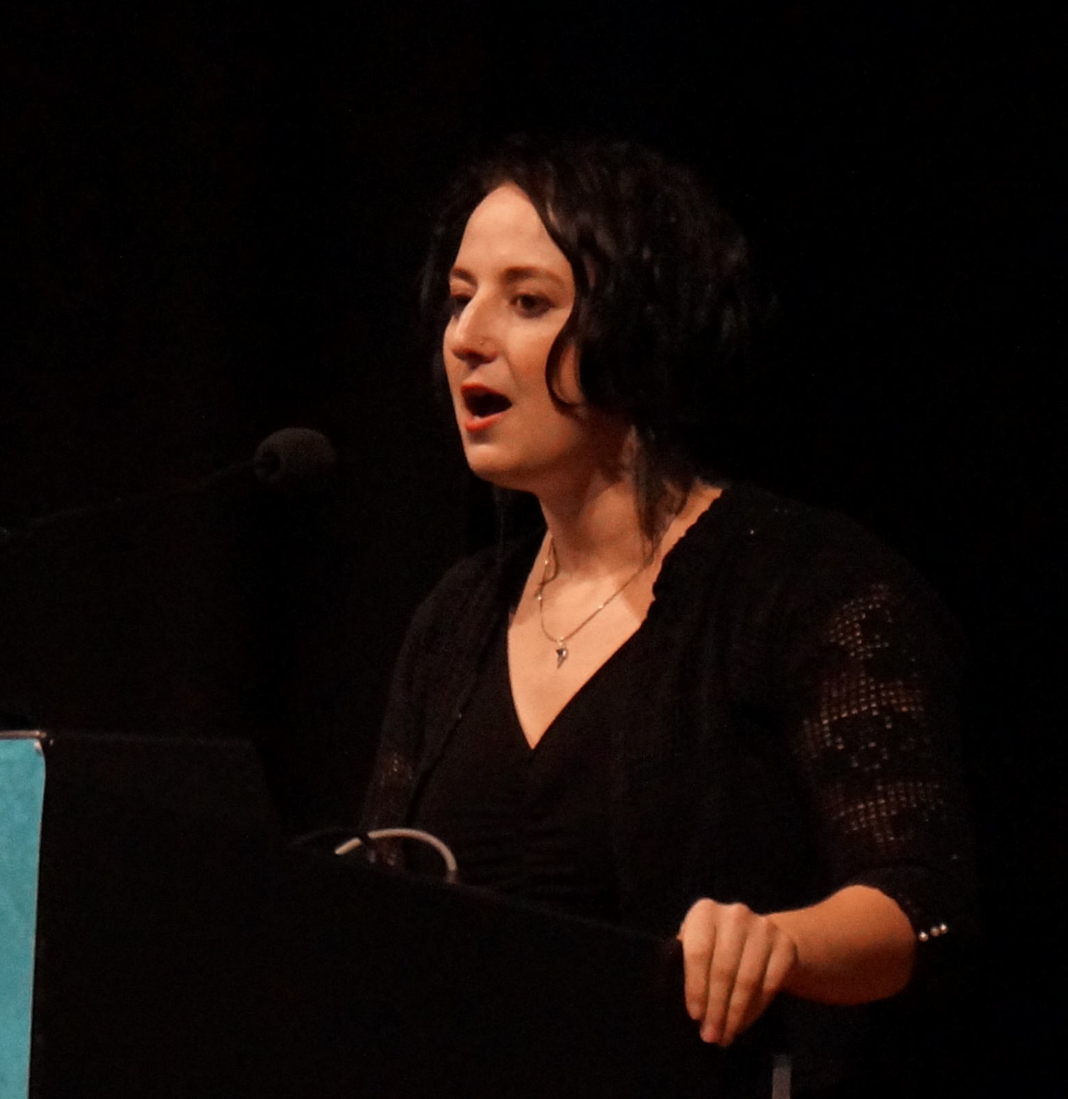 Eva Galperin speaking at the Chaos Communication Congress